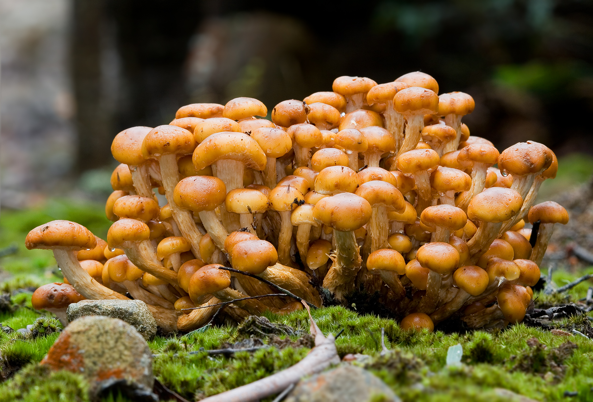 Pholiota malicola, Meander Forest Reserve, Tasmania, Australia